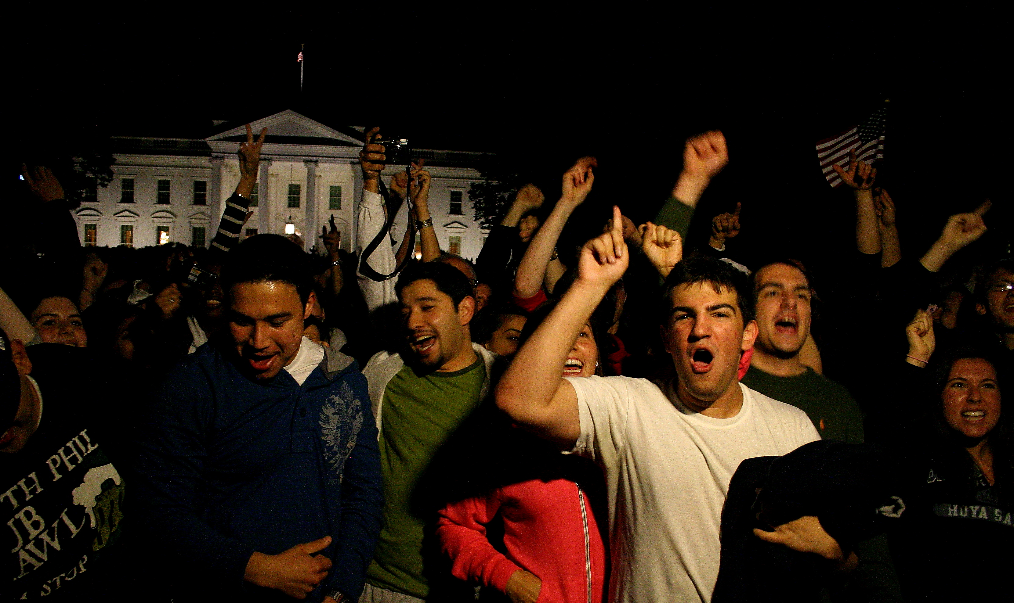 Residents of Washington, DC, celebrate the news of Osama bin Laden killed.